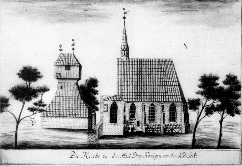 Old Three Kings Church on the Johann Heinrich Amelung picture from the 18th century